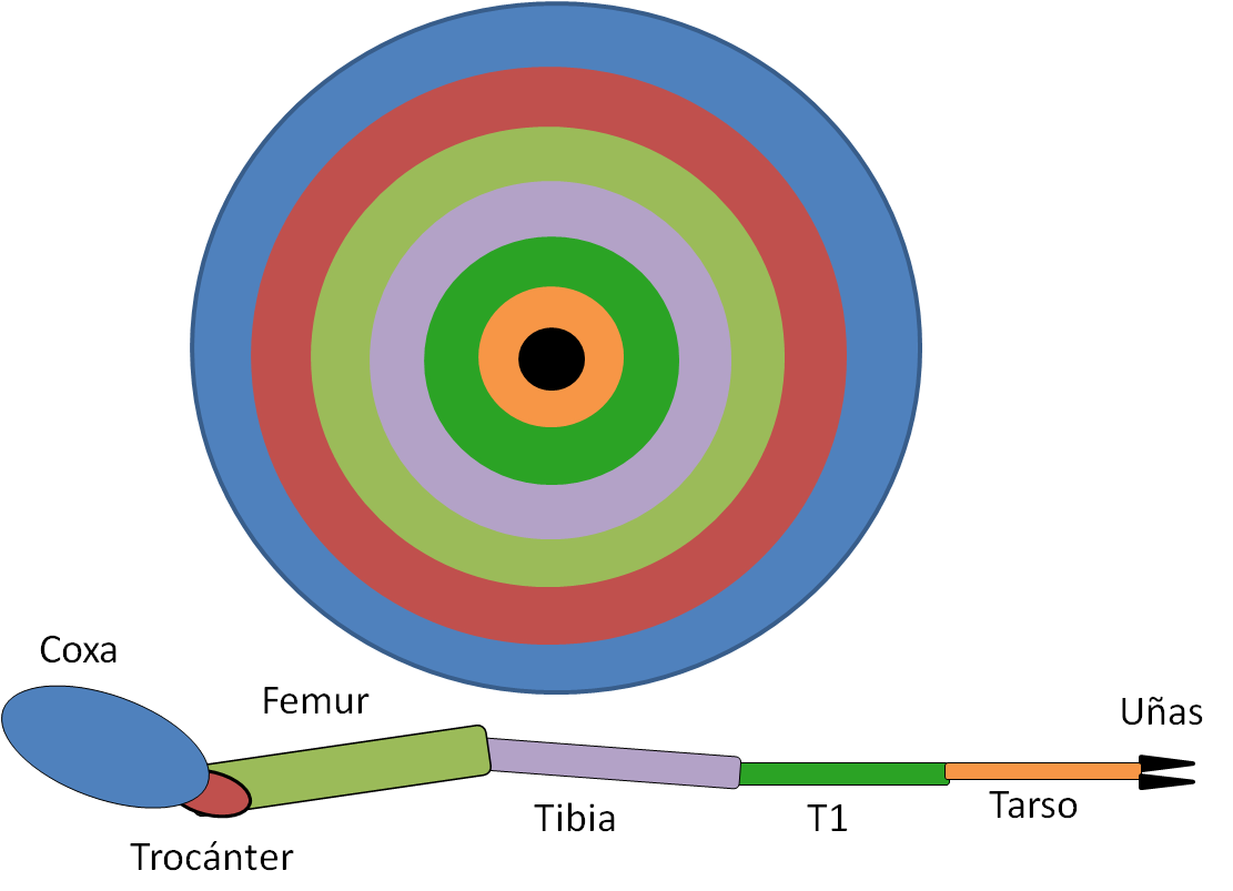 Ejemplo del disco imaginal de una pata de mosca. Se observa la determinación de las células de cada zona para formar un segmento específico del apéndice.